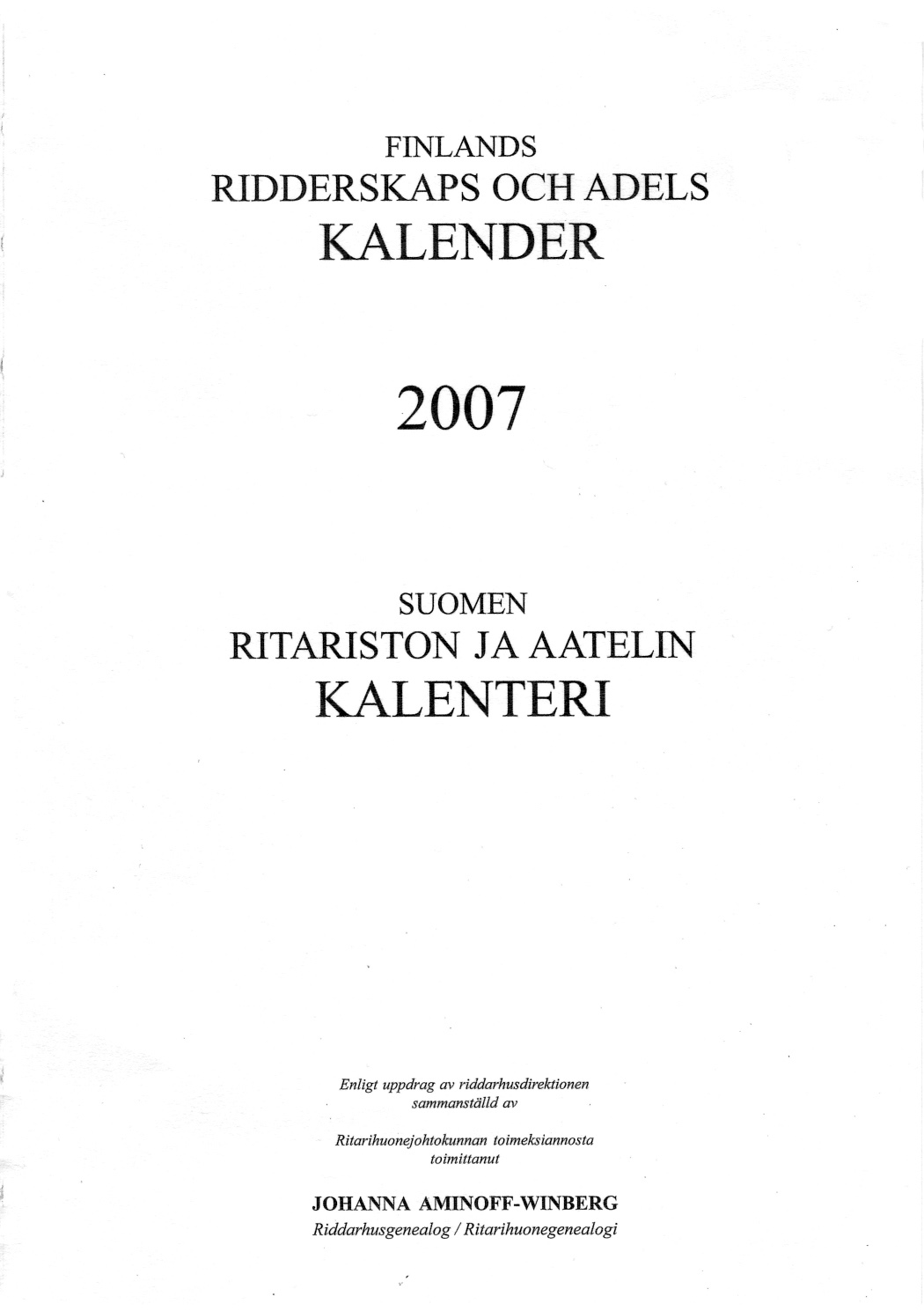 Title page of the Finnish Calendar of Nobility 2007.